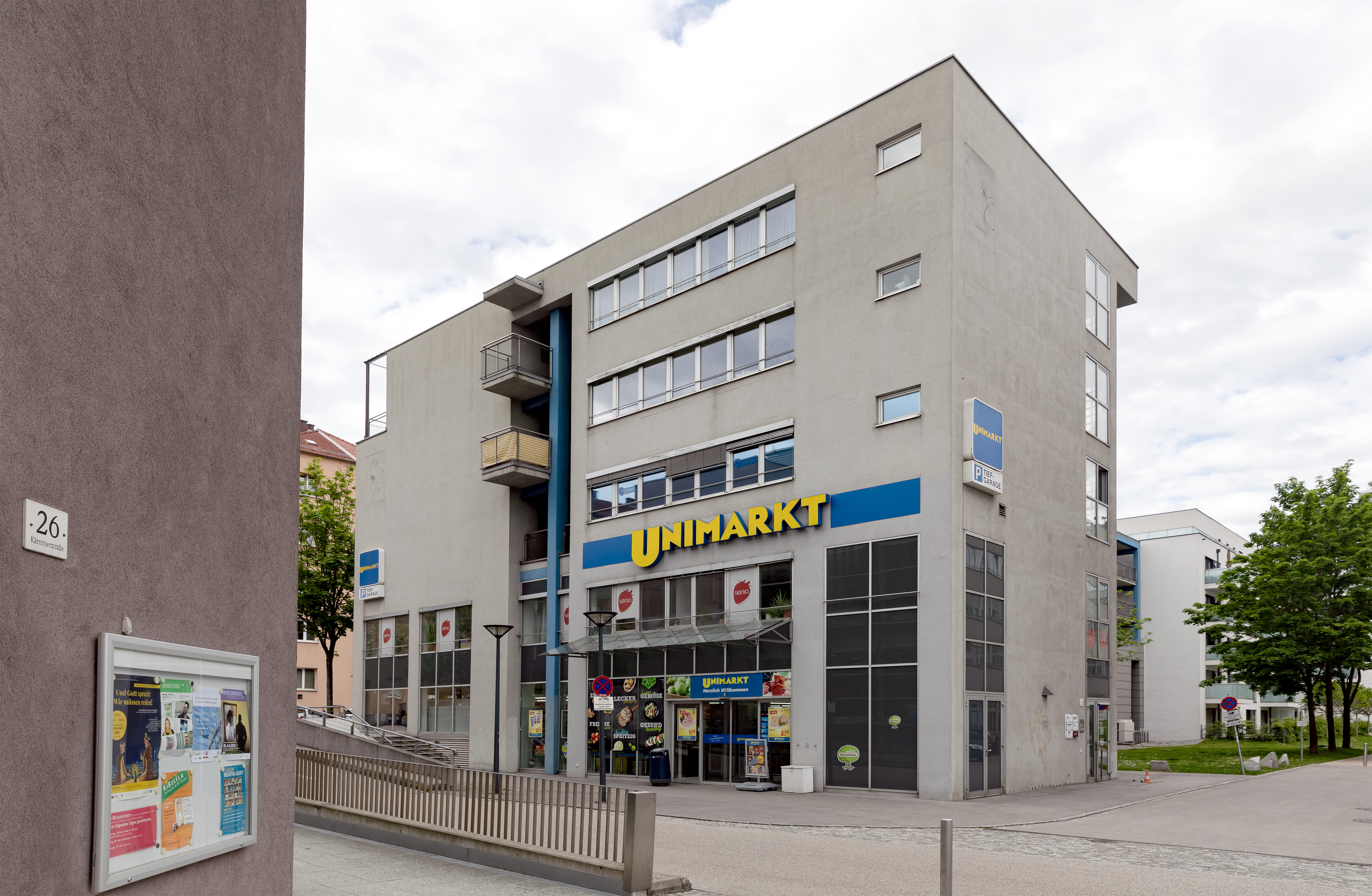 Unimarkt Weingartshofstraße in Linz, Austria.